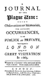 defoe's journal